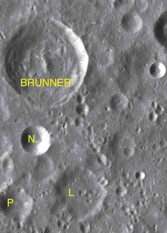 Part of the chart LAC-82 used for the presentation